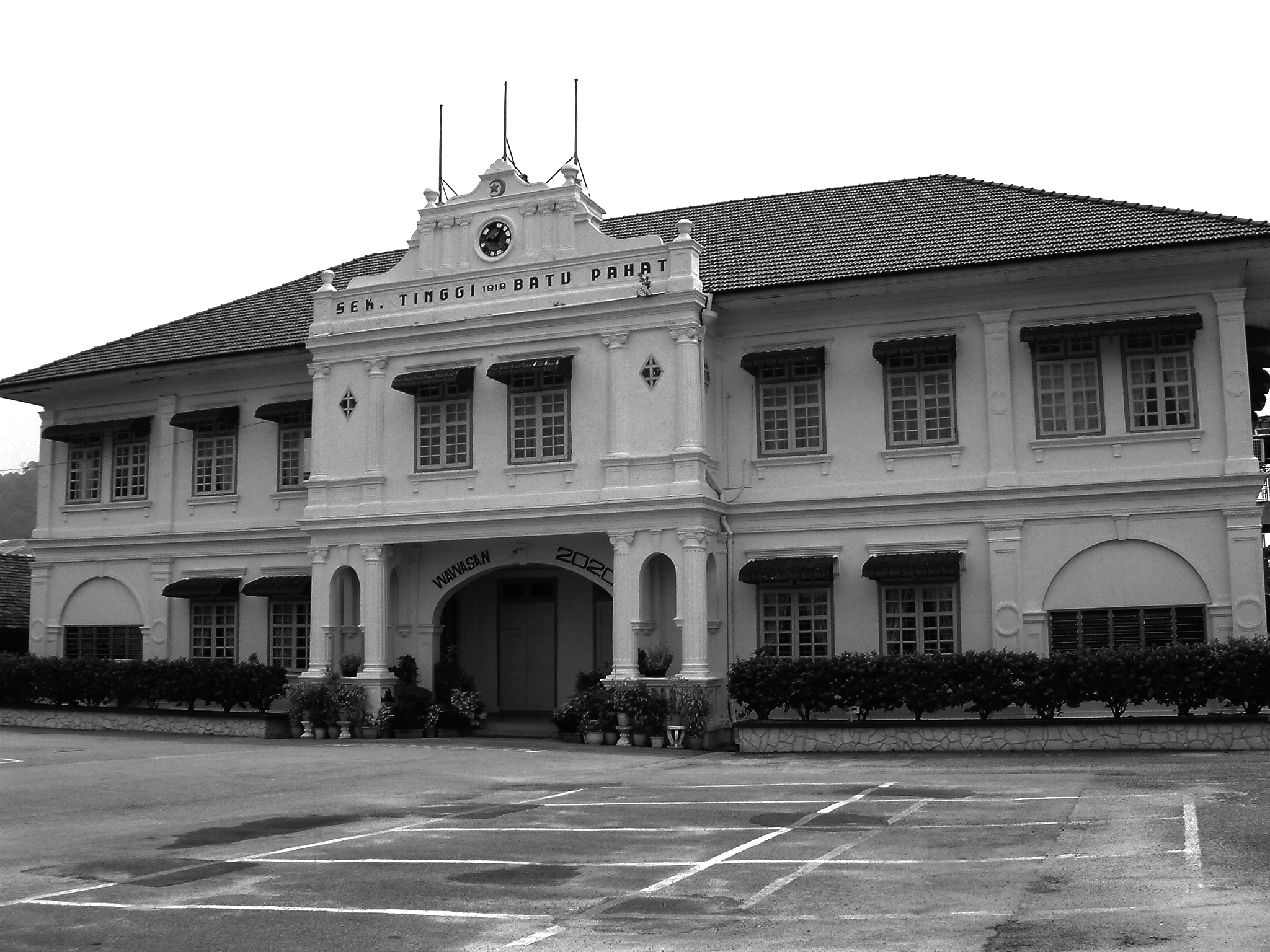 Taken by author.